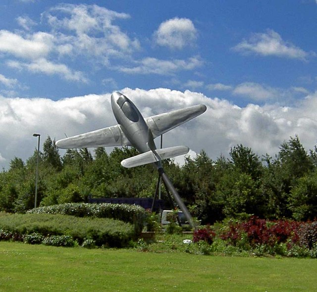 Low flying Aircraft sculpture in a roundabout near junction 20 of the M1 motorway.